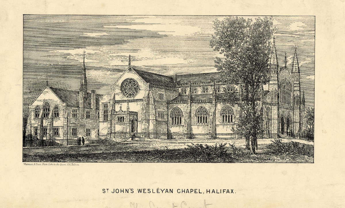 Drawing of Methodist Church of St John, Prescott Street, Halifax, West Yorkshire, England. Designed in 1880 by William Swinden Barber. Demolished in 1966. Also known as St John's Wesleyan Church.